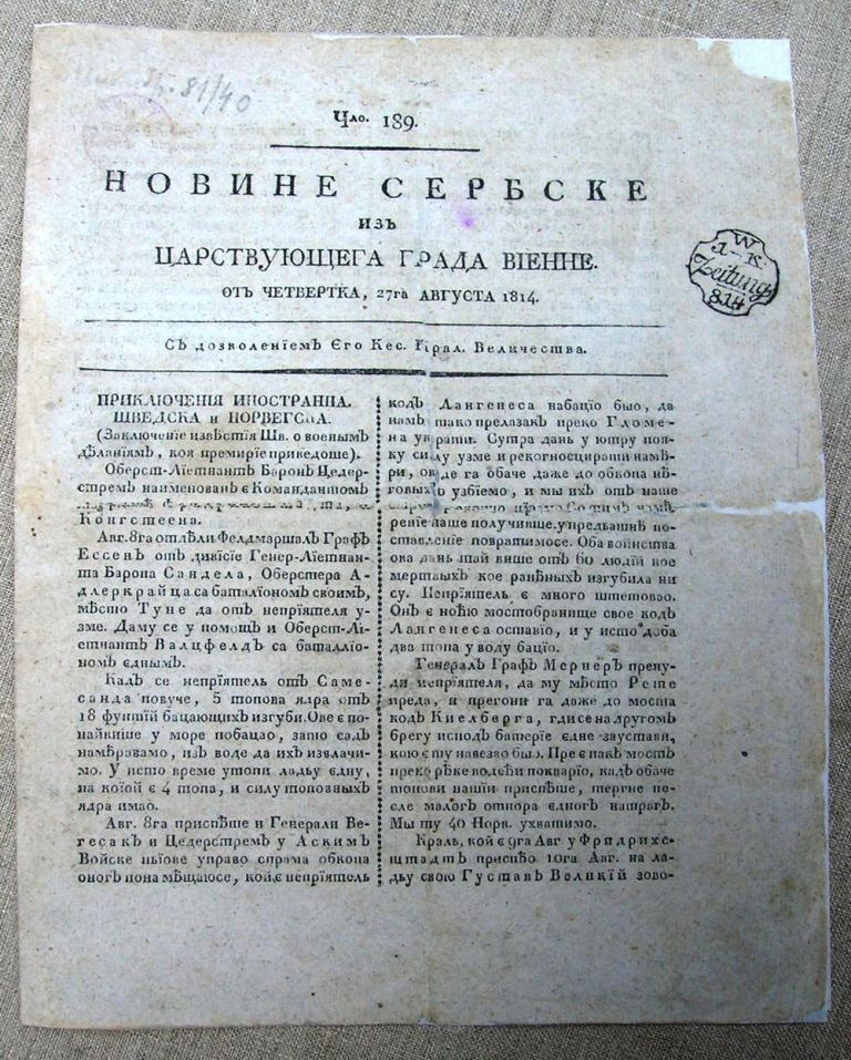 Front page of Novina serbskih printed in Vienna in 1814, Museum in Smederevo